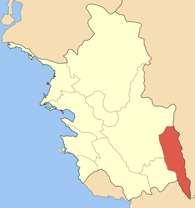 Locator map of Souli community (Κοινότητα Σουλίου) in Thesprotia prefecture (Νομός Θεσπρωτίας) in Greece.